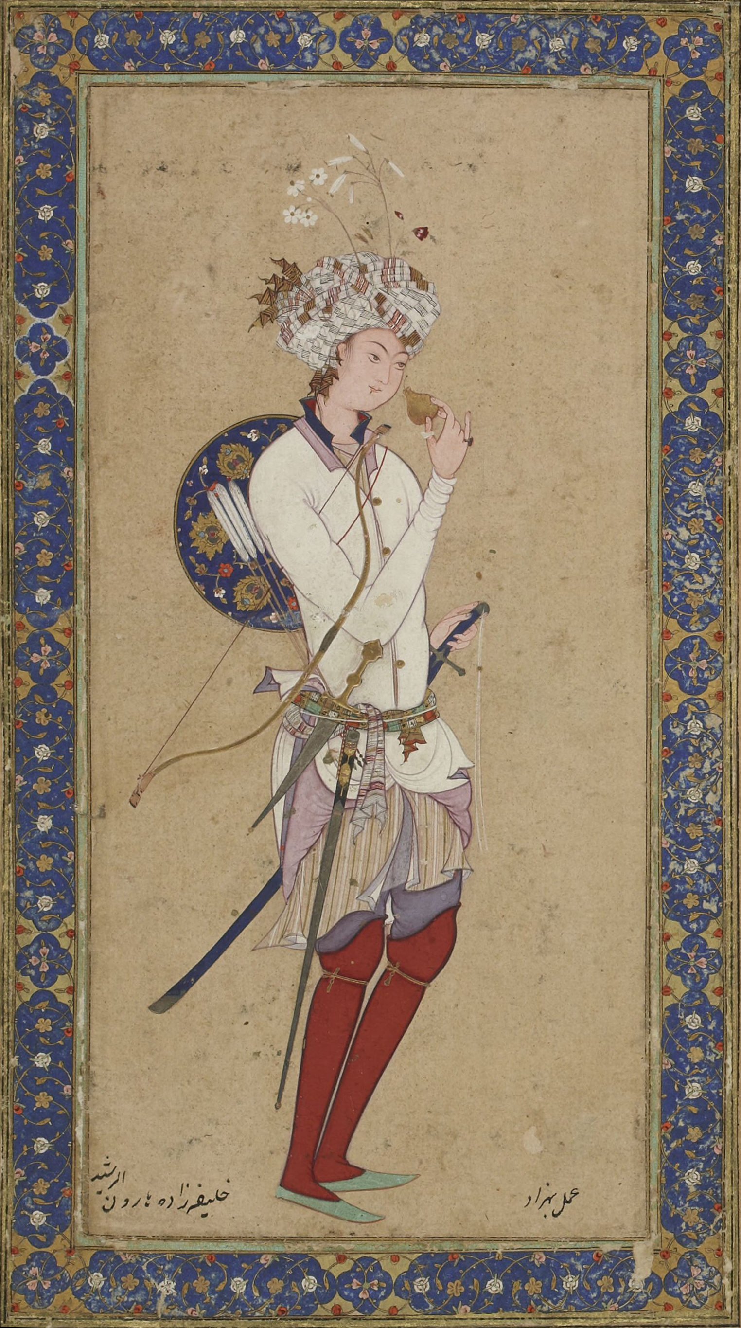 Harun al-Rashid: (ca: en:763?en:809) was the fifth and most famous Abbasid Caliph. Ruling from en:786 until en:809, his reign and the fabulous court over which he held sway are immortalized in The Book of One Thousand and One Nights.